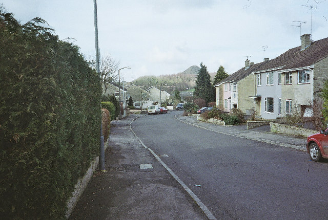 High Meadows, Midsomer Norton. With Paulton Batch in the distance